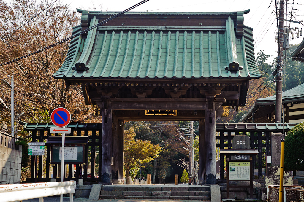 The gate of Myōhonji, Kamakura